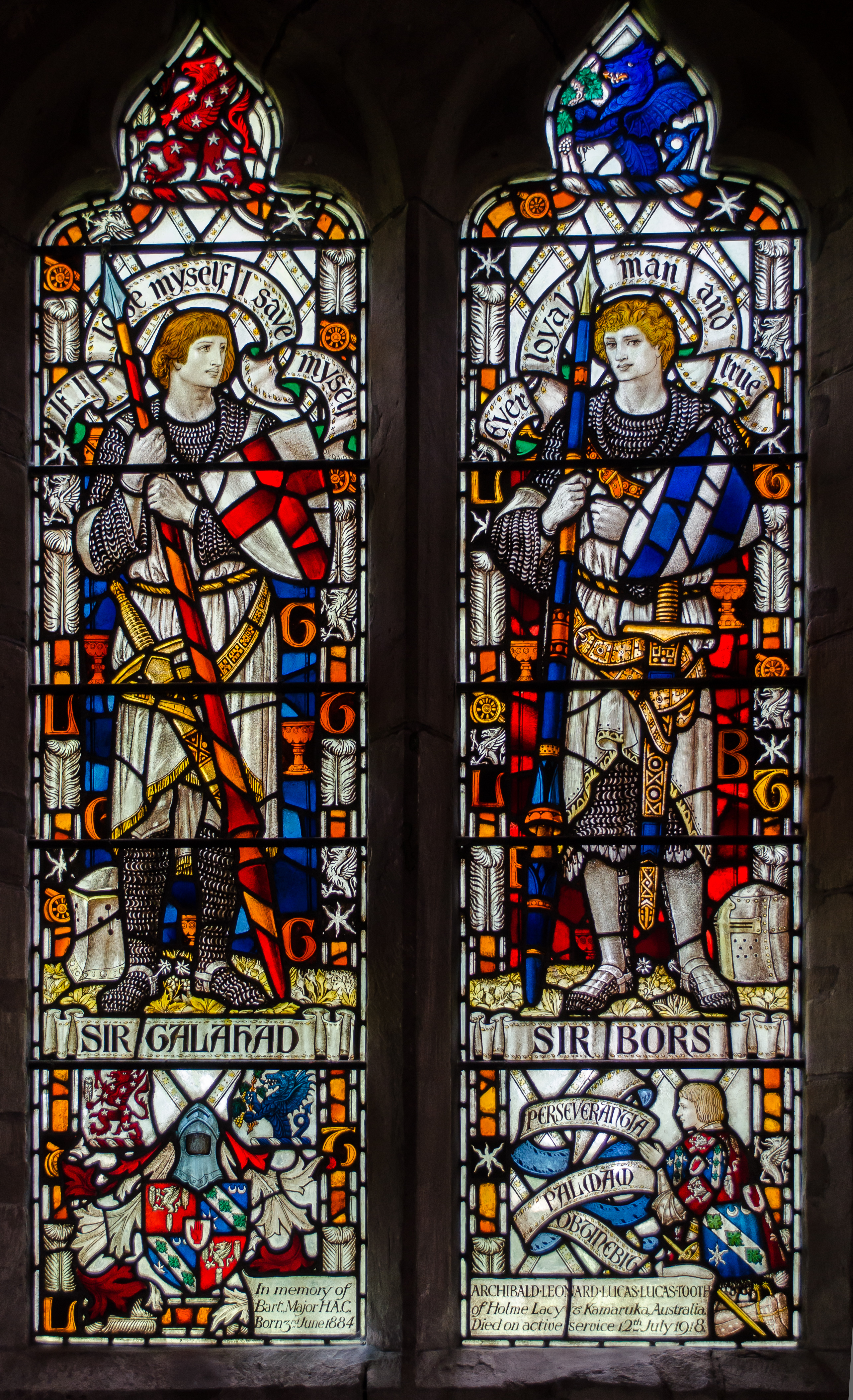 Sir Galahad and Sir Bors by Powell. In memory of Archibald Leonard Lucas Lucas Tooth (1884-1918). Died on active service.